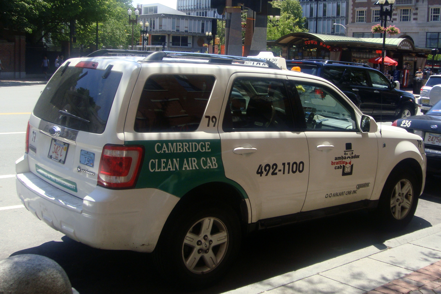 Ford Escape Hybrid operating as taxicab of Cambridge's Clean Air Cab program, Massachusetts, US